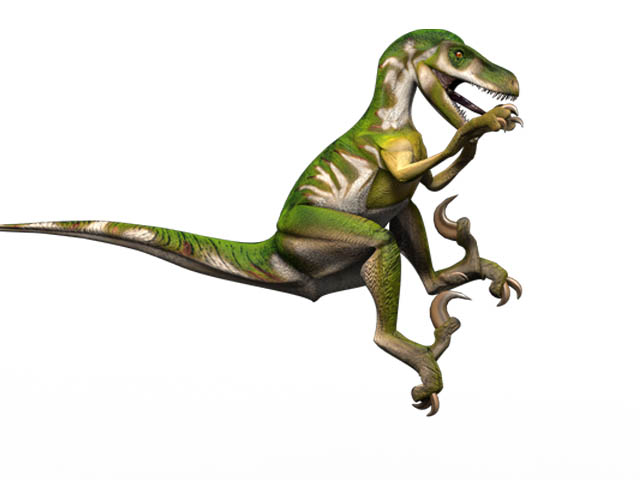 Utah Raptor